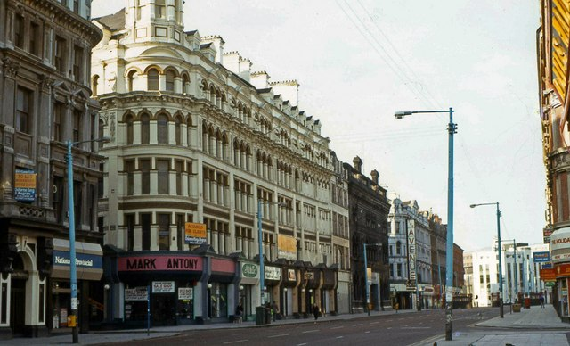 Former Grand Central Hotel, Belfast. It was hoped that the three railway companies serving Victorian Belfast would be united at a central station in Royal Avenue. The traders could not agree so the owner of the site built the 200-bedroom Grand Central Hotel instead. It opened in 1893 and traded until 1971 when the decline in business following the bombing campaign forced it to close. It was an army barracks from 1972 until the early 80's. After that the ground floor was let as shops. It was demolished 511371 and replaced by the Castle Court shopping centre 627502.